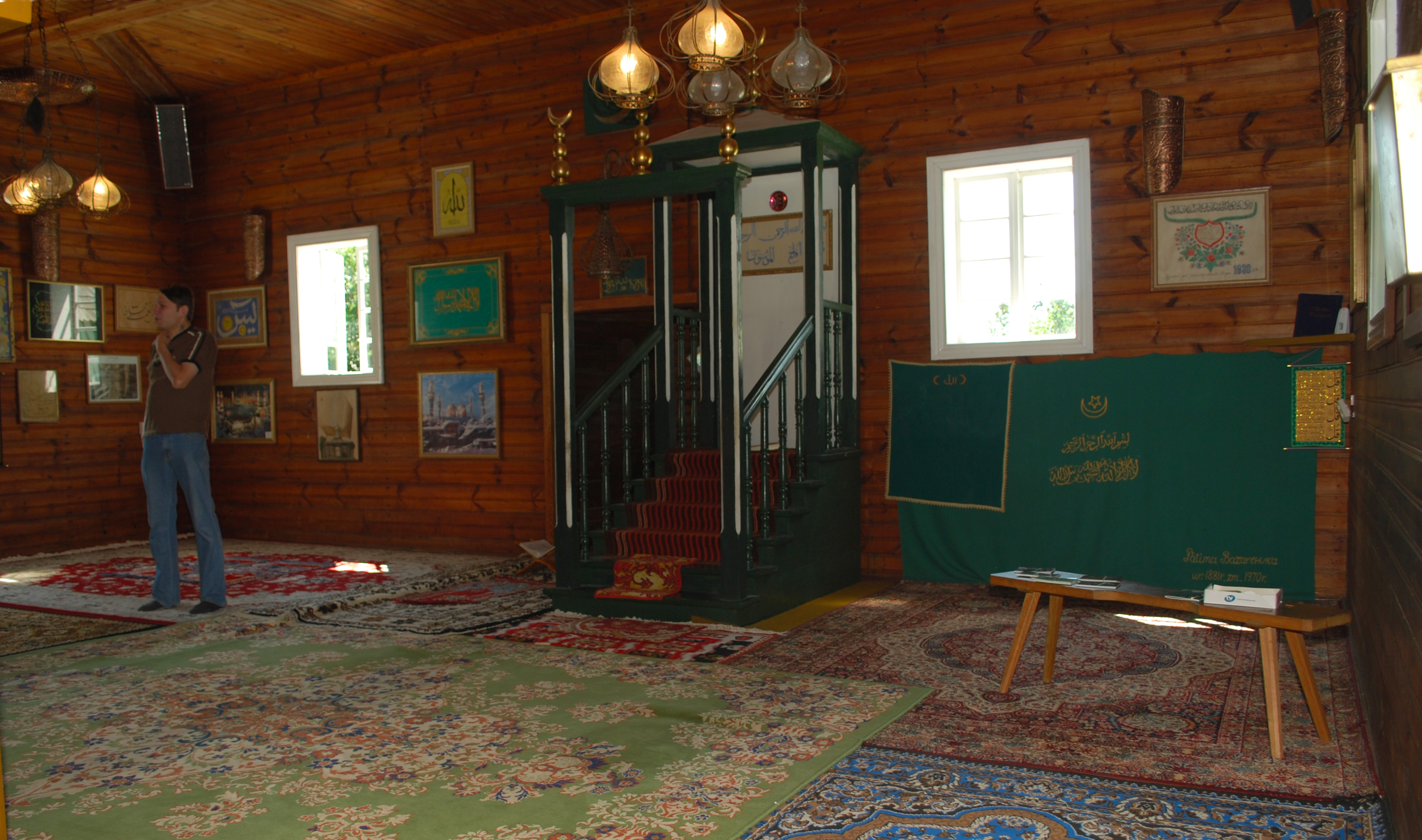 This photo from Podlaskie Voievodeship was taken during Polish Wikiexpedition 2009 set up by Wikimedia Polska Association. The making of this document was supported by Wikimedia Polska. Meczet w Kruszynianach - widok na kiblę.